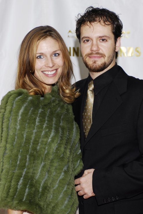 Gabe Hordos and Line Andersen at the 2006 Annie Awards red carpet at the Alex Theatre in Glendale, California.